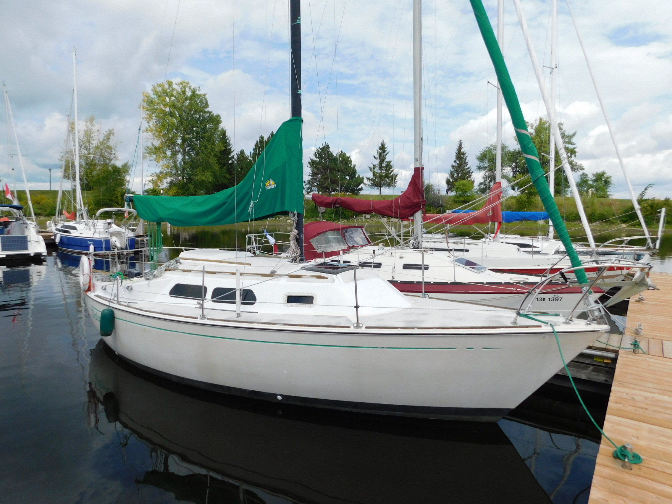 A Paceship PY 26 sailboat named Dalriada.